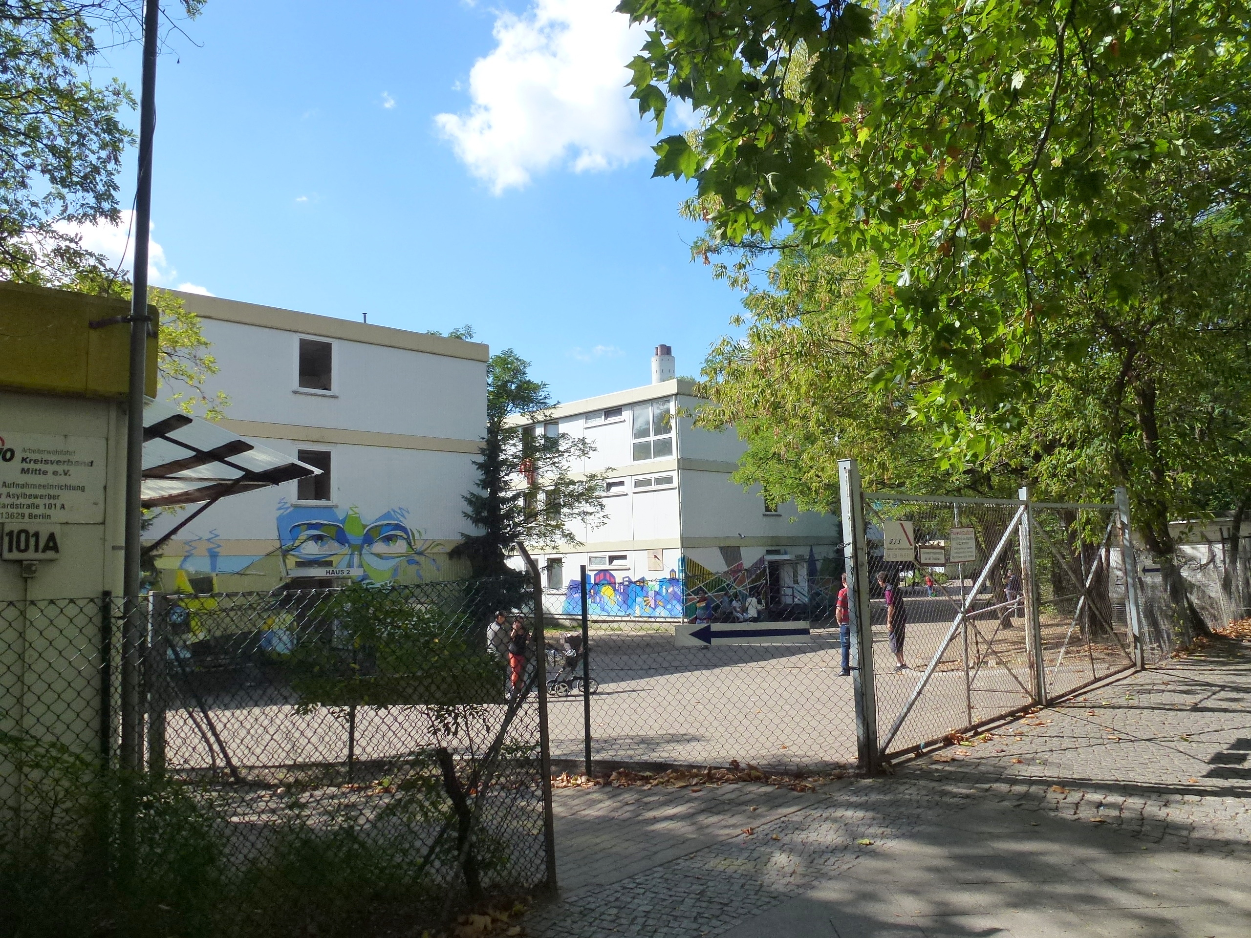 Berlin-Siemensstadt Motardstraße Asylbewerberheim